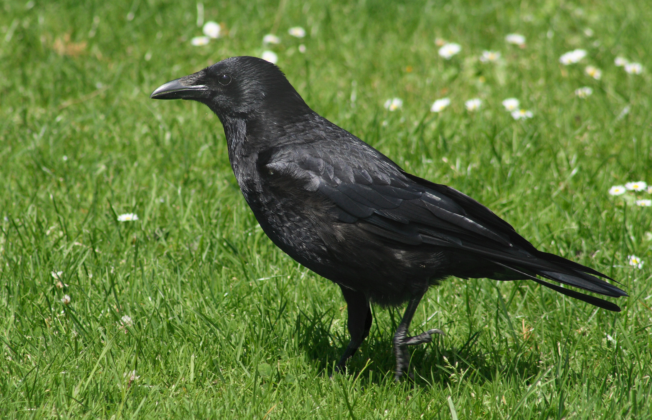 Carrion Crow (Corvus corone corone) in Planten un Blomen, Hamburg, Germany.